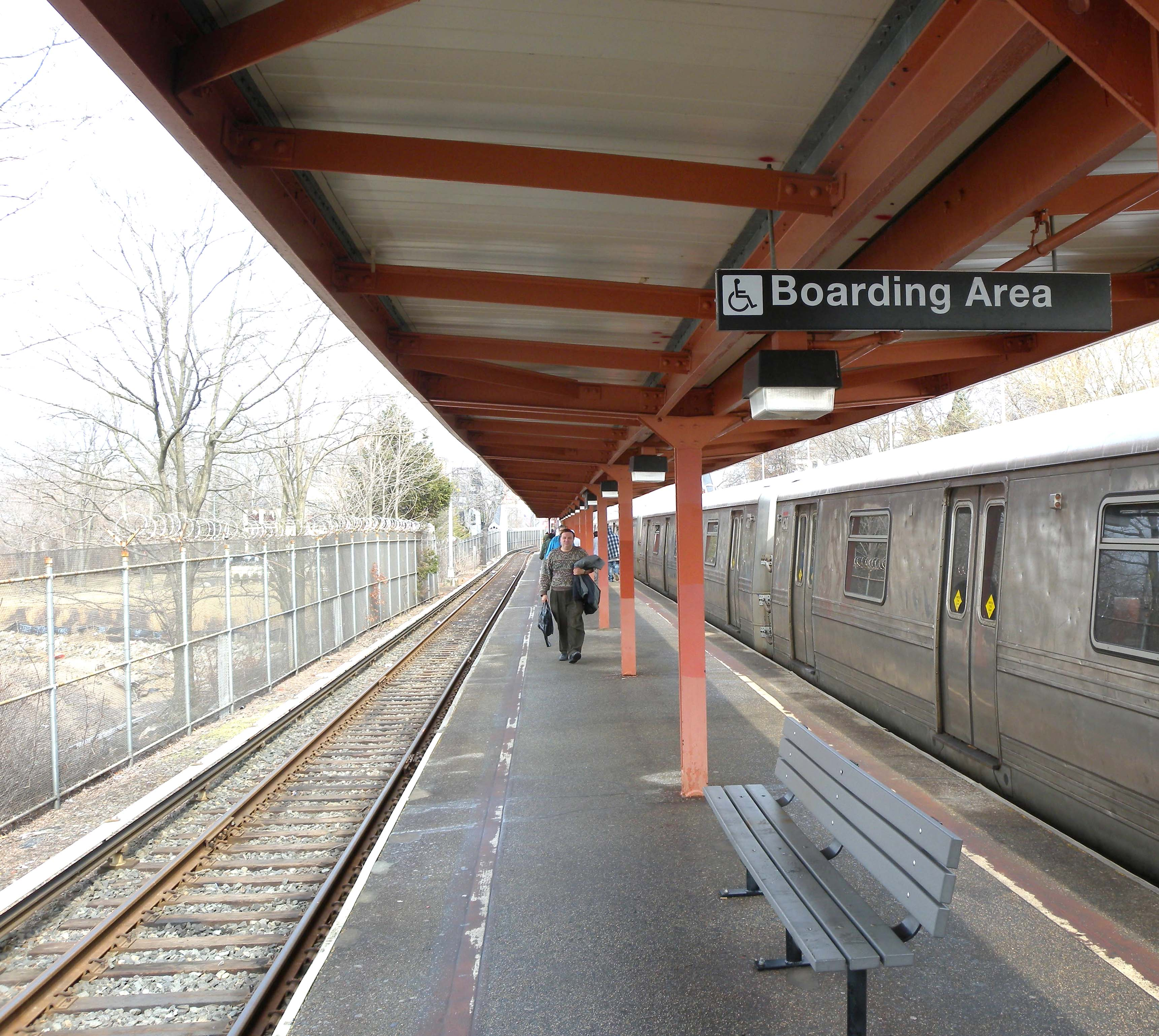 Looking northeast along platform of Tottenville (Staten Island Railway station) on a cloudy afternoon.